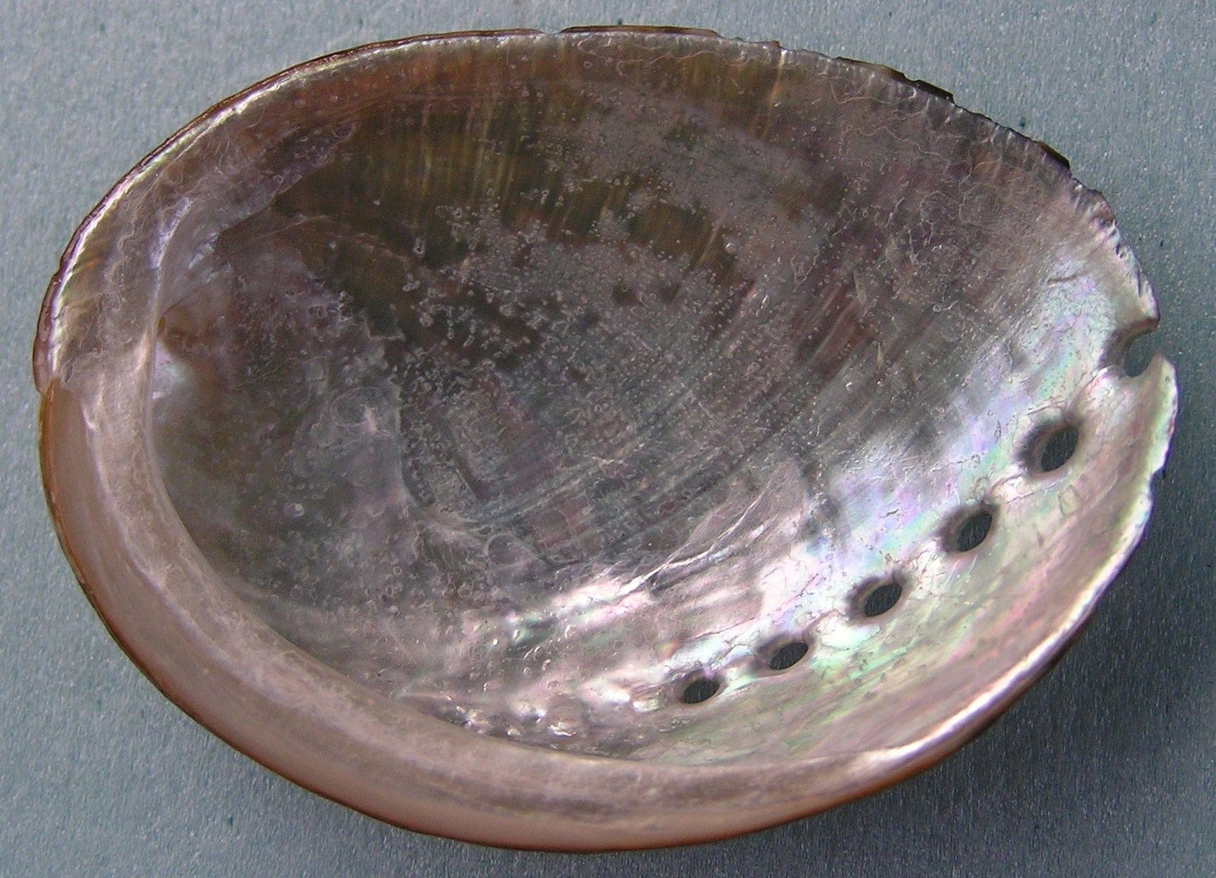 Haliotis glabra Gmelin, 1791; family Haliotidae; Indonesia